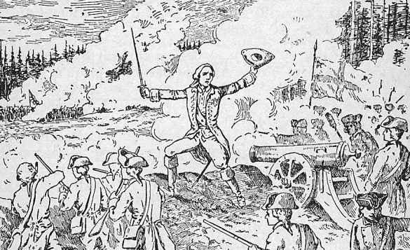 General Montcalm directs the defence of Fort Carillon. Early 20th-century illustration. Online at Canadian Military Heritage, Department of Defence.